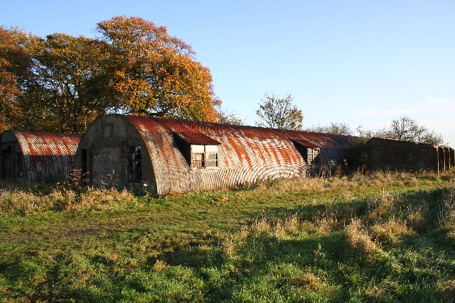 RAF Ingham. Derelict wartime buildings associated with RAF Ingham on the cliff top near Fillingham